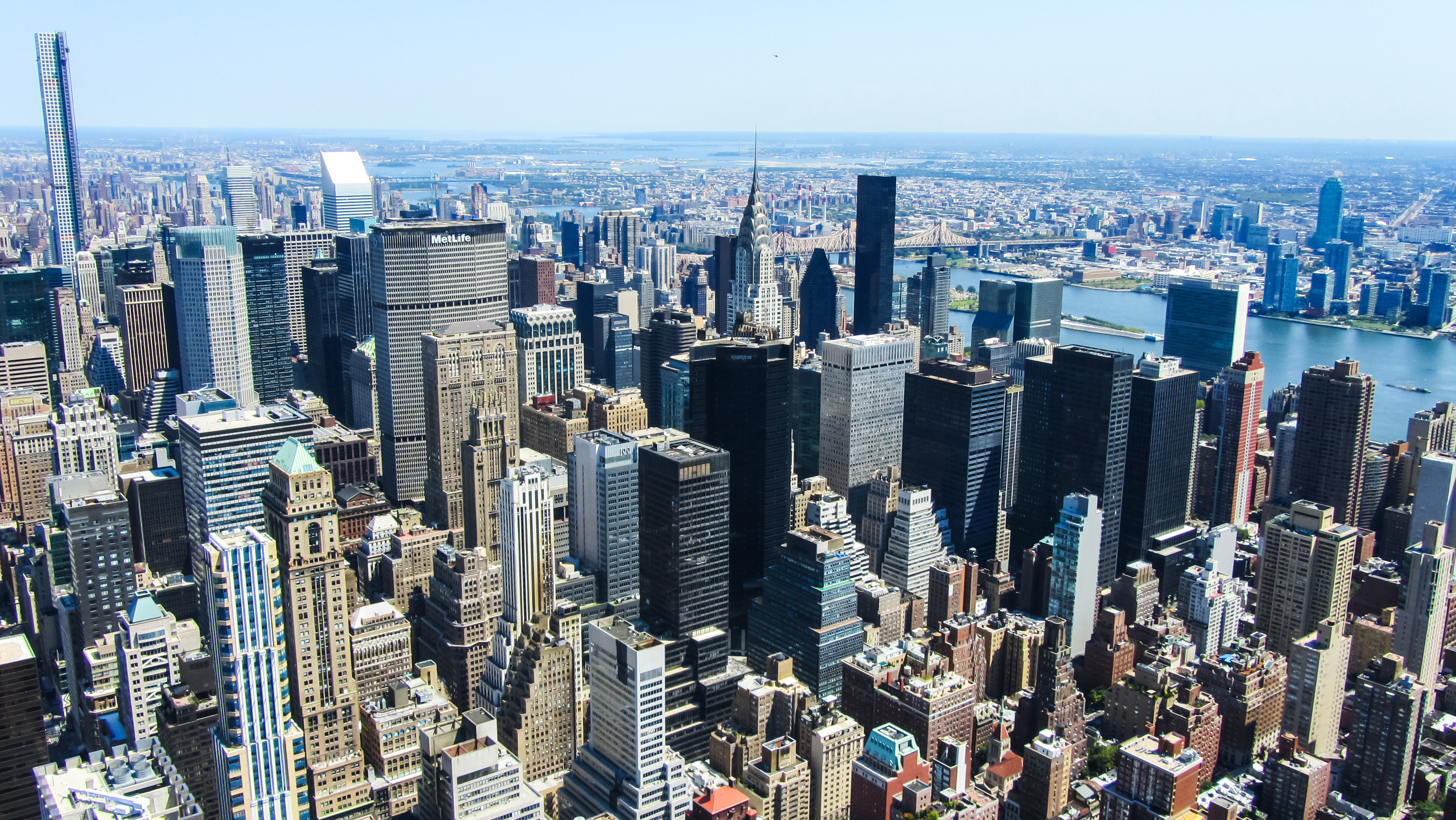 An image from Empire State Building showing New York City Midtown zone